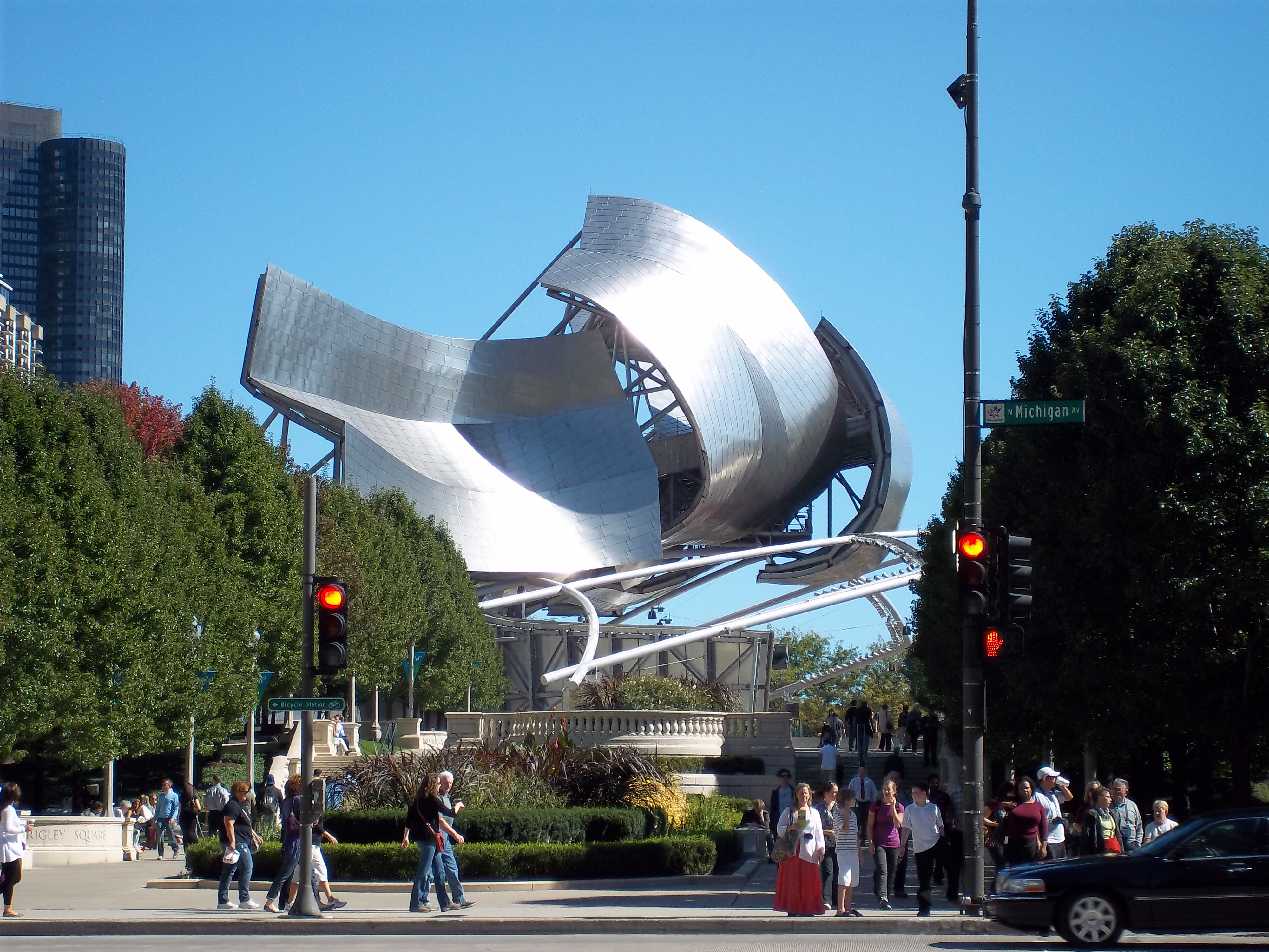 Band shell in Millennium Park by Frank Gehry - Pritzker, from across Michigan Avenue